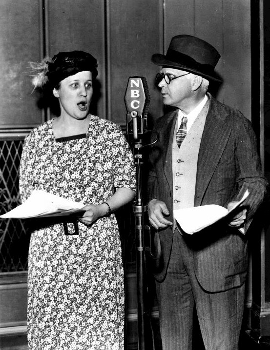 Photo of Marian and Jim Jordan as Fibber McGee and Molly from the radio program of the same name. The photo was taken in the Chicago (WMAQ Radio) studios of NBC; this was before the show moved to Hollywood.